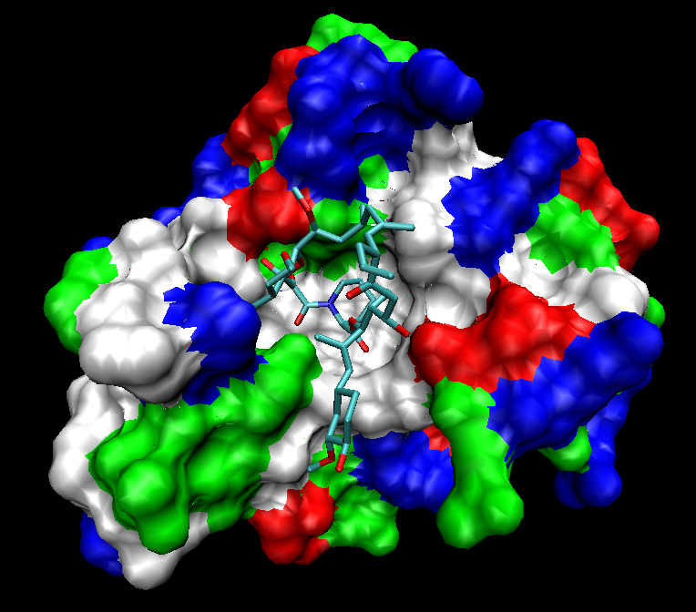 The human immunophilin protein FKBP12 colored by hydrophobicity (white = hydrophobic) with bound FK506, an immunosuppressant used in treating organ transplant patients to prevent rejection. FKBP also has unrelated prolyl isomerase activity.